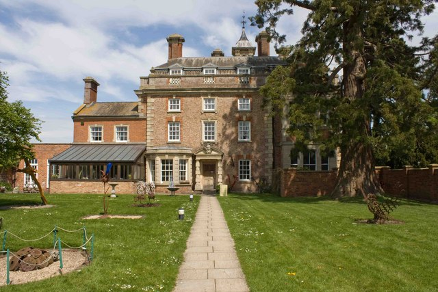 Sculpture Garden at Wallsworth Hall Examples of Nature in Art can be seen here. The object seeming to lean against the tree on the left is a life-size wooden Albatross by Gloucestershire sculptor Peter Walwin.